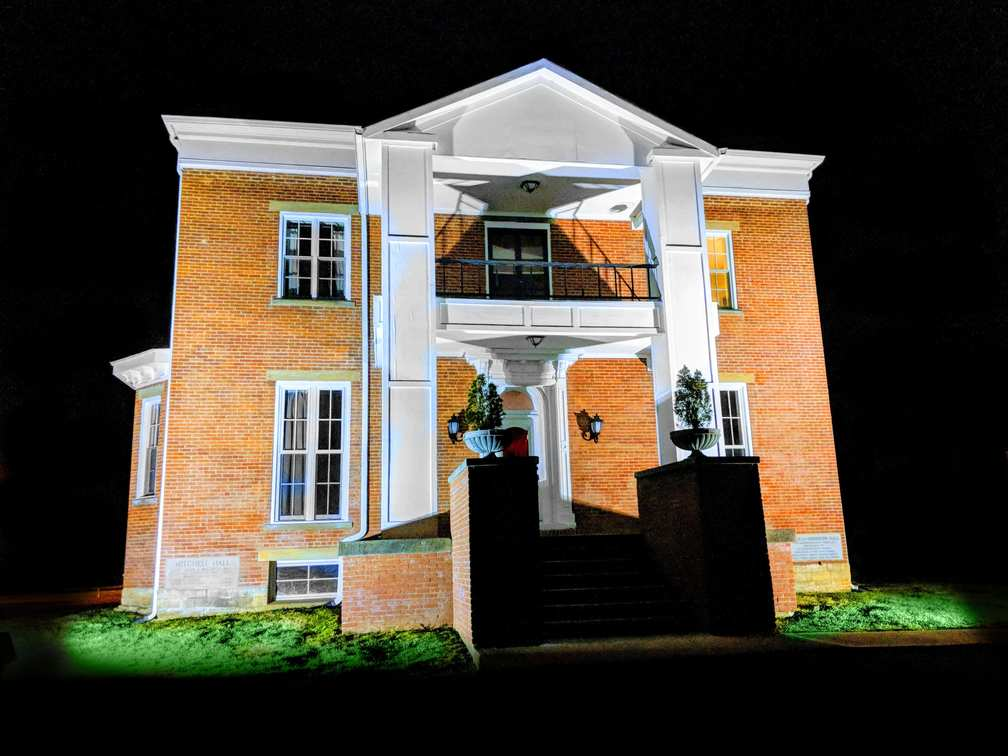 The Mitchell-Anderson building on the Payne Seminary campus.